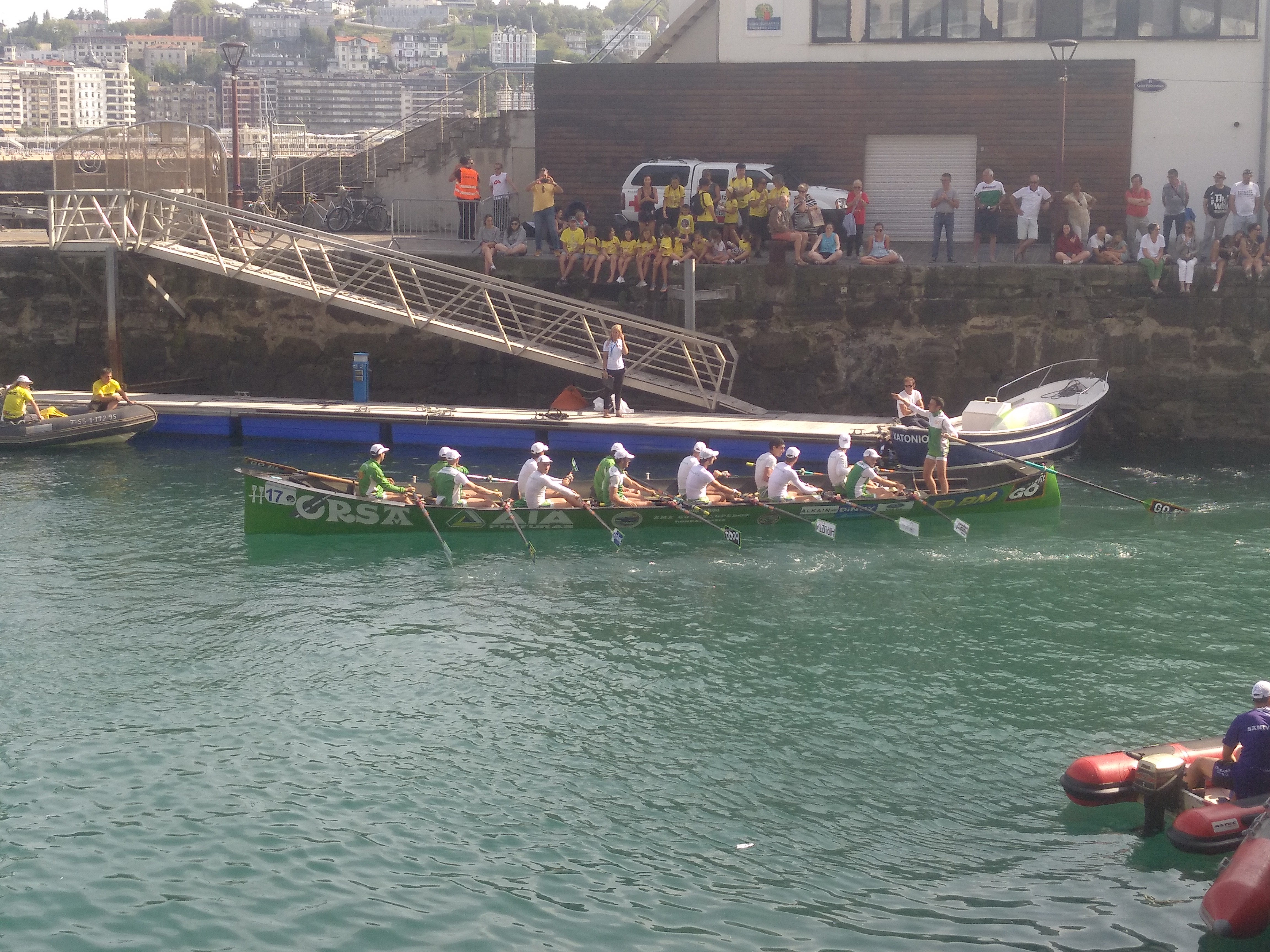 Hondarribia Arraun Elkartea, Flag of La Concha, 2018